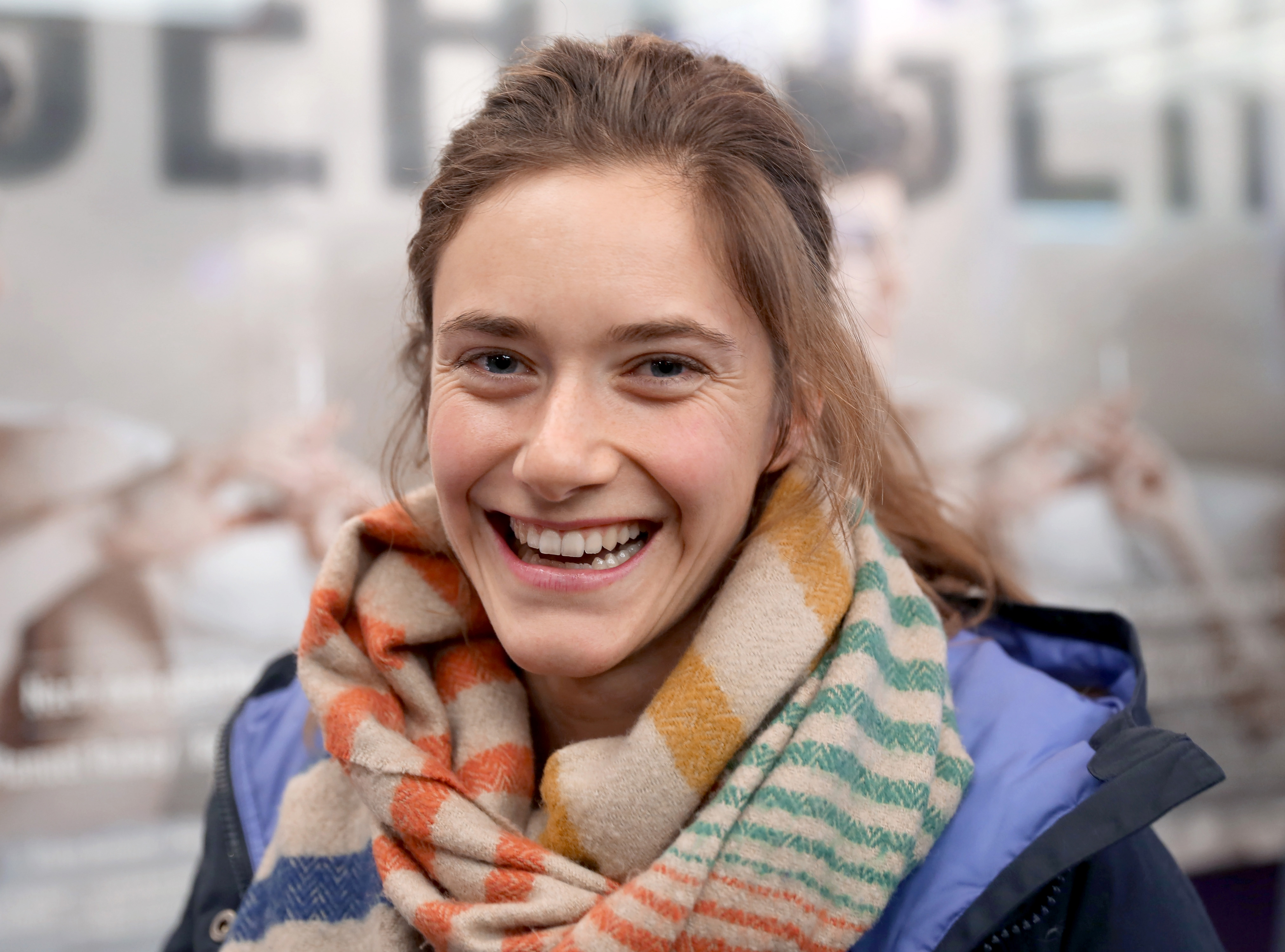 Miriam Stein at the premiere of the movie Gruber geht at Gartenbaukino in Vienna, Austria.